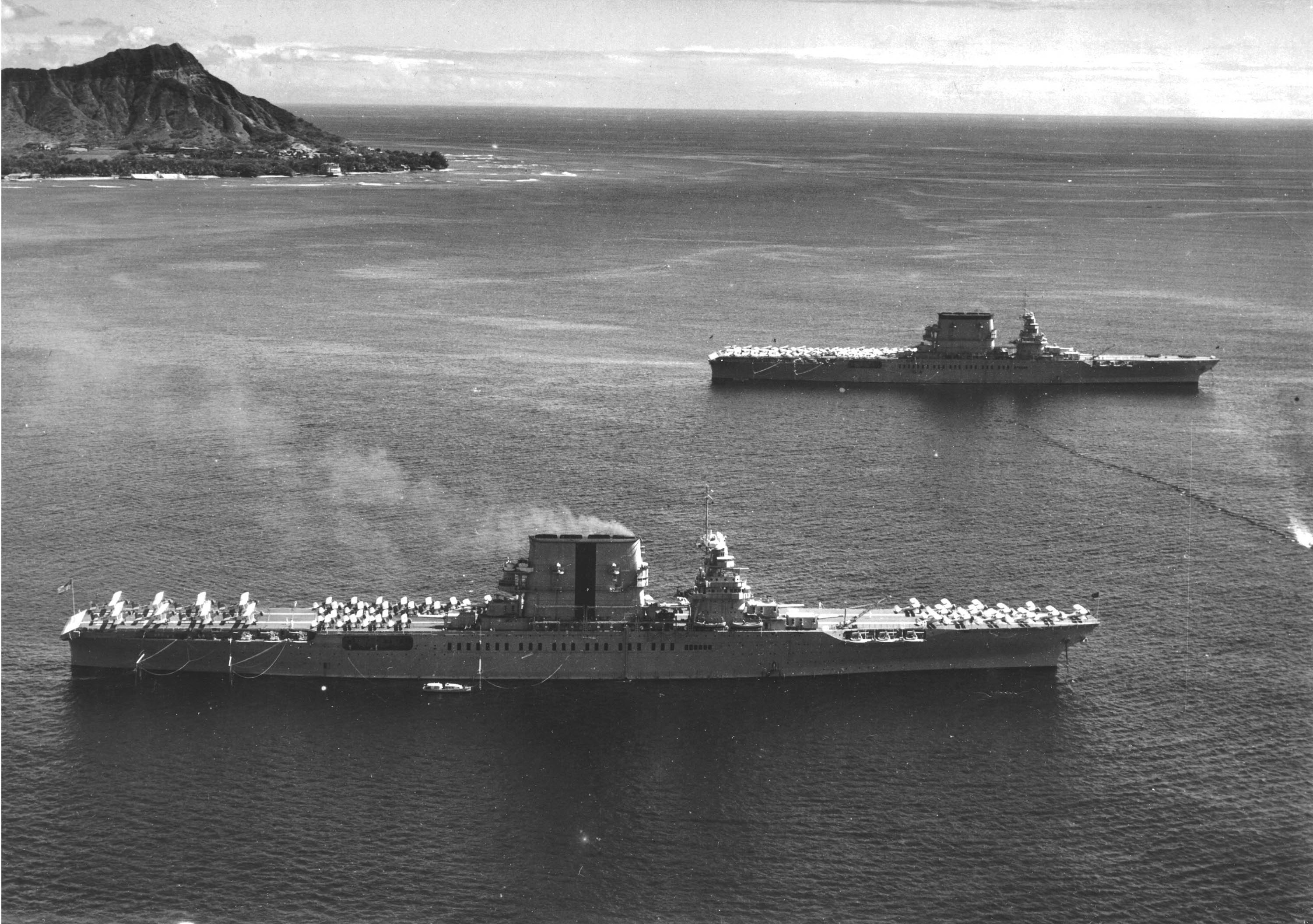 The U.S. Navy aircraft carriers USS Saratoga (CV-3) and USS Lexington (CV-2) off Diamond Head on 2 February 1933 while both ships were awaiting the official beginning of exercise "Fleet Problem XIV".